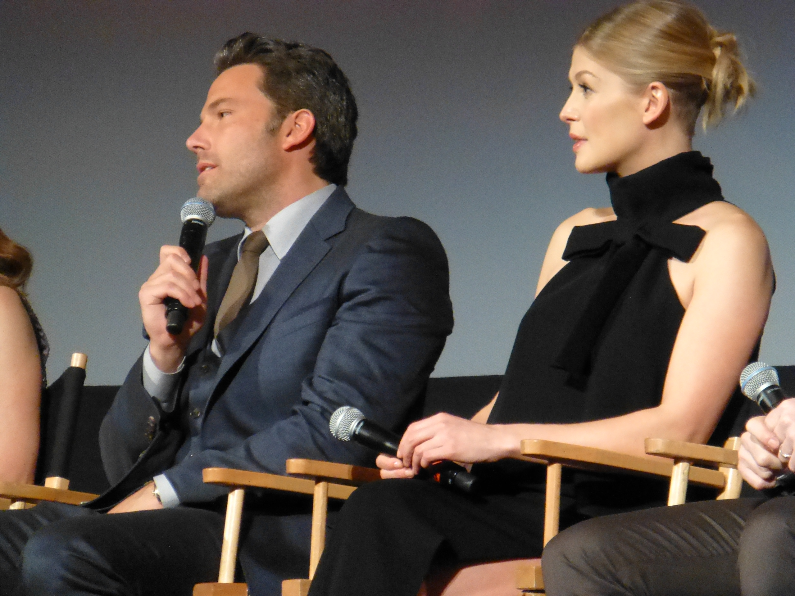 Gone Girl Premiere at the 52nd New York Film Festival, October 2014.